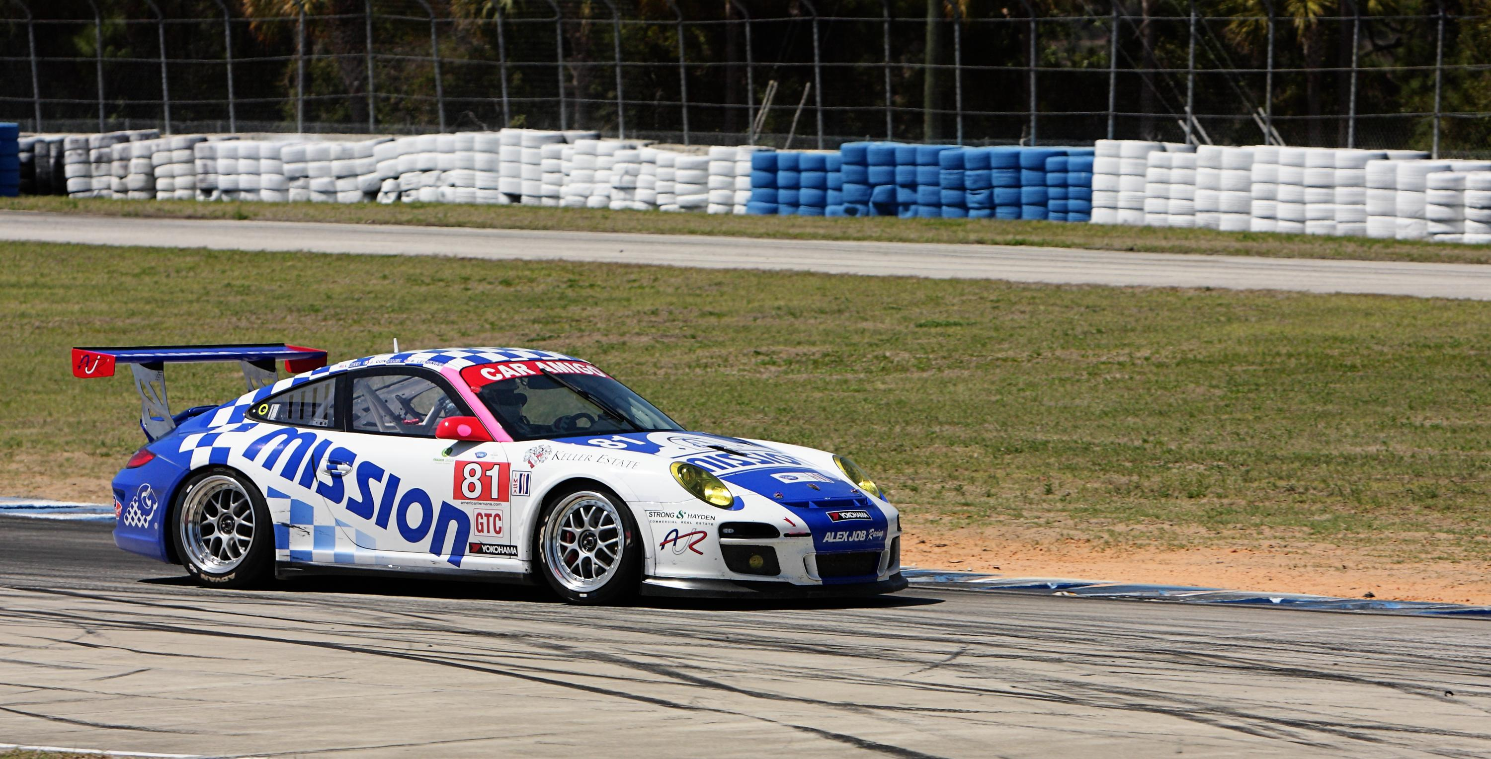 GTC class winner. Alex Job Racing #81 Porsche 997 GT3 Cup